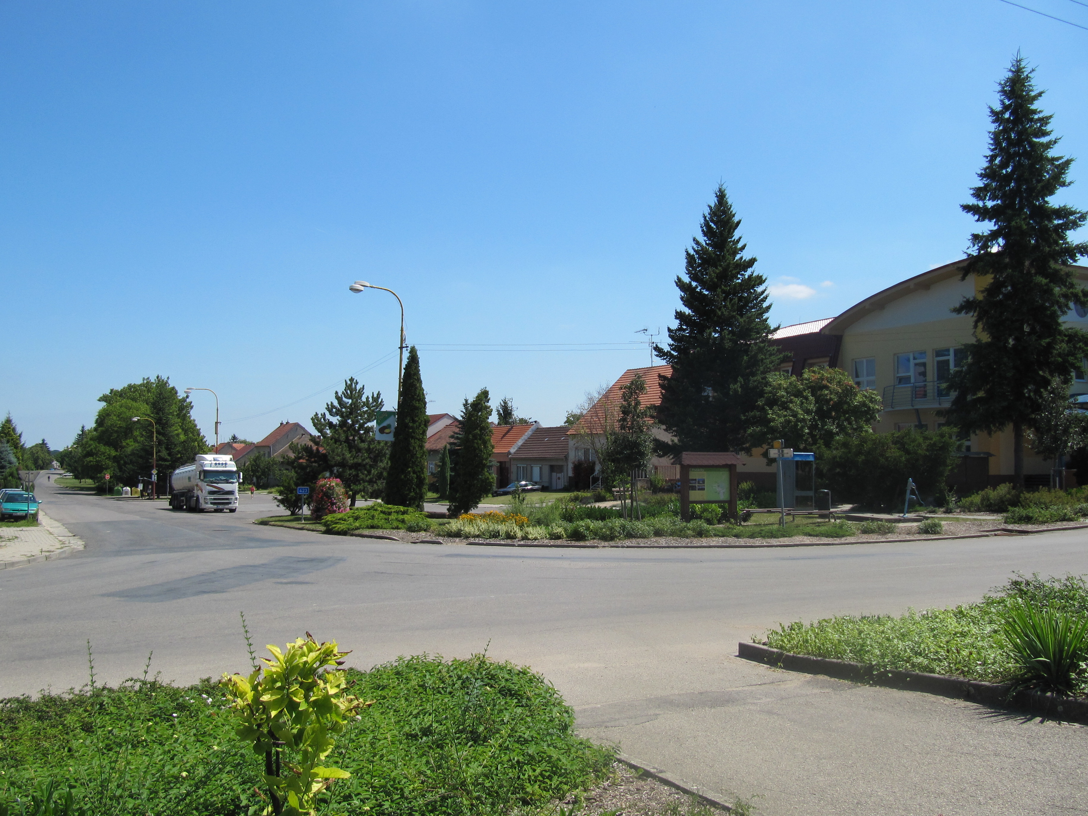 Prušánky in Hodonín District, Czech Republic. Crossroad and Hodonínská street. This photograph was taken within the scope of the third year of the 'Czech Municipalities Photographs' grant.